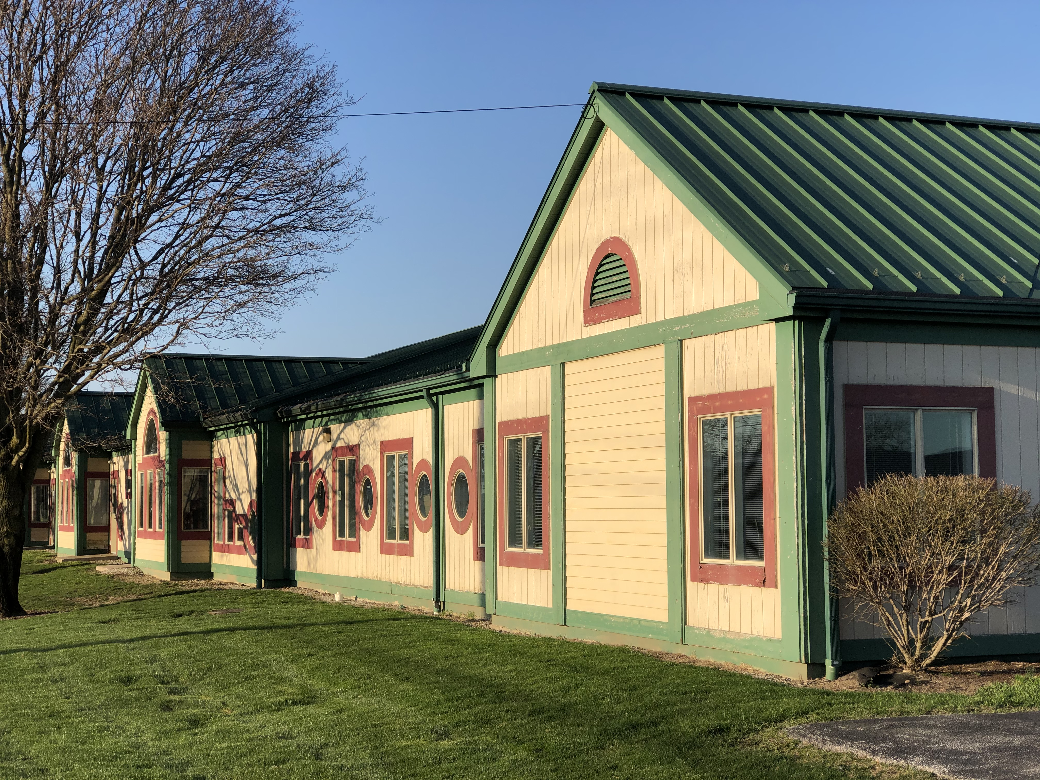 Facade of the Child Development Lab at Bowling Green State University.